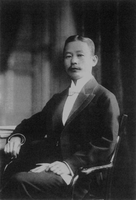 Kanai Noburu.